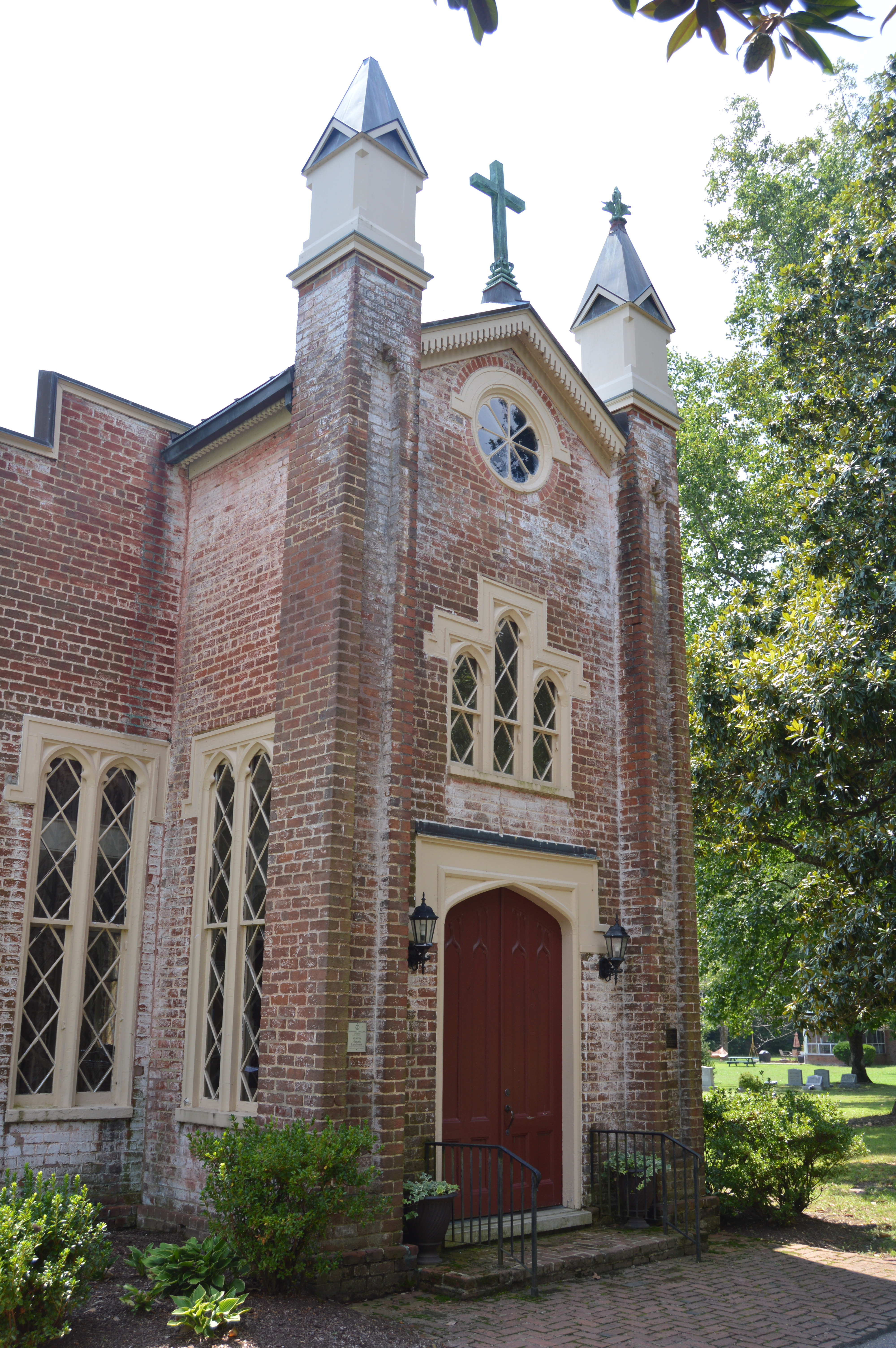 Front of Immanuel Episcopal Church, located on Old Church Road at Old Church in Hanover County, Virginia, United States. Built in 1853, it is listed on the National Register of Historic Places.